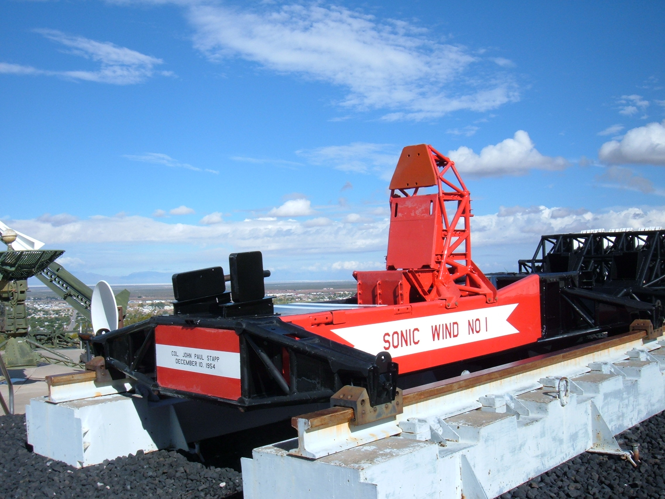 Sonic Wind No. 1, a rocket sled ridden by John Paul Stapp in the 1950s. Located in the John P. Stapp Air and Space Park at the New Mexico Museum of Space History, Alamogordo, New Mexico.